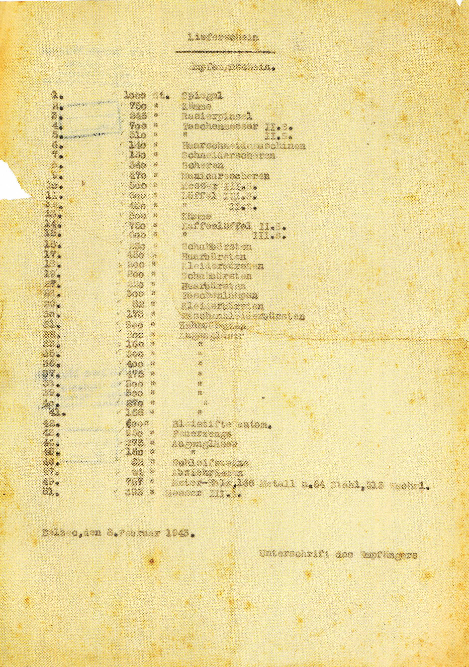 List of items sent to the warehouses of Aktion Reinhardt in Lublin from Bełżec death camp